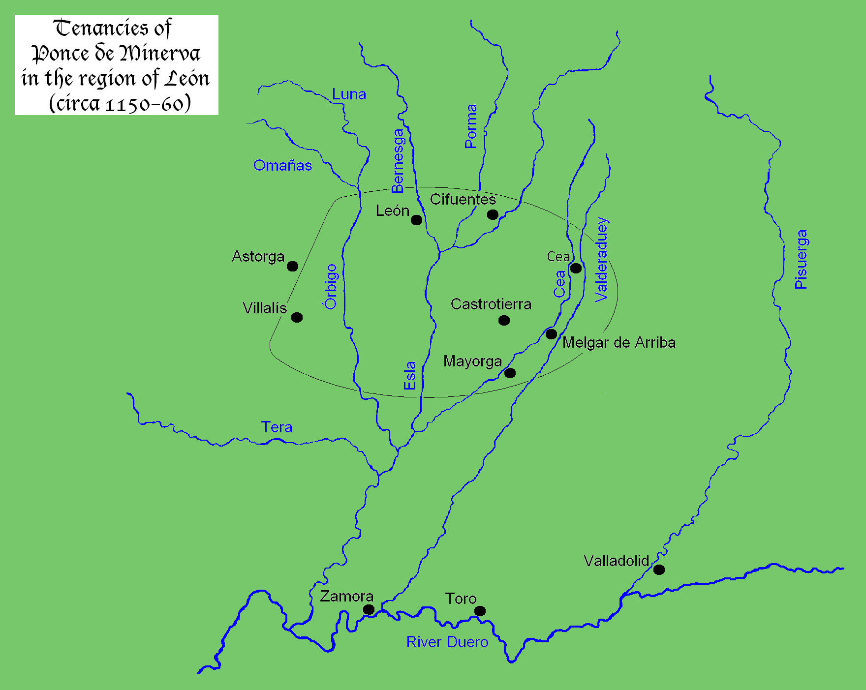 Map of the tenancies and property interests of Ponce de Minerva in c.1150/60, adapted from Simon F. Barton (1997), The Aristocracy in Twelfth-century León and Castile (Cambridge: Cambridge University Press), p. 88.